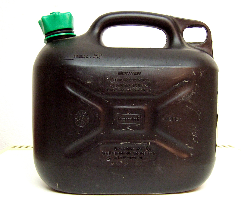 Gasoline canister